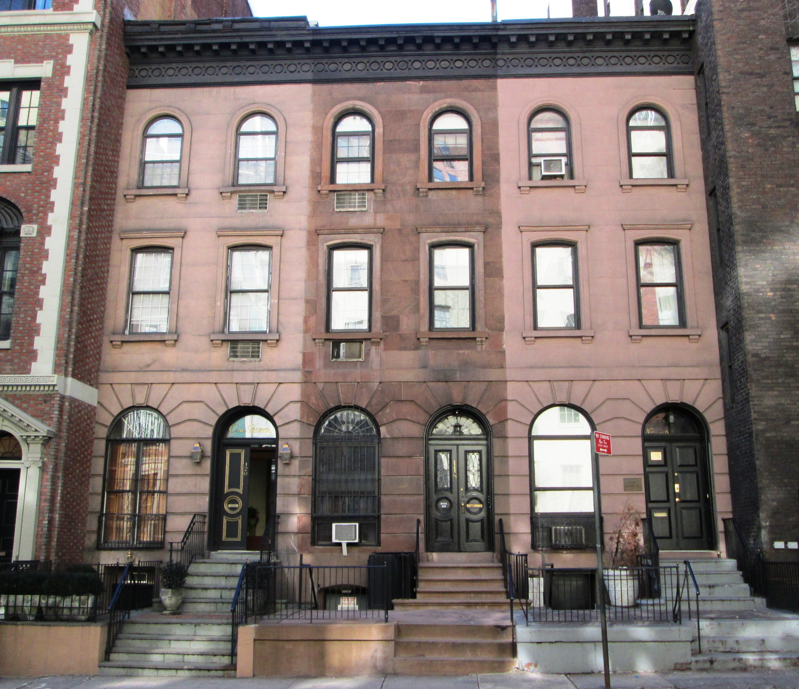 116 (right) to 120 (left) East 38th Street between Park and Lexington Avenues in the Murray Hill neighborhood of Manhattan, New York City were built c.1855-56 in the Italianate style. #116 is Mali's Permanent Mission to the United States. The row houses are located in the Murray Hill Historic District. (Source: "Murray Hill Historic District Designation Report")